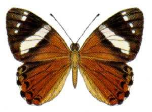 identifying features of Australian butterfly species wing pattern